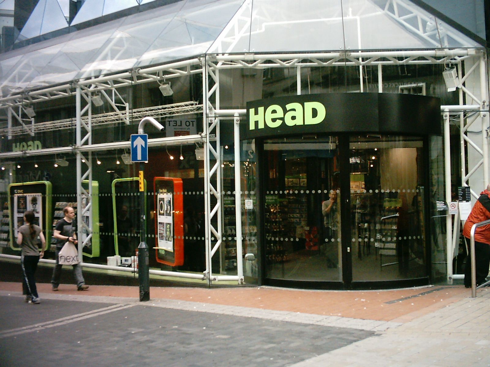 Head in Leeds, West Yorkshire, UK. Head is a record shop and was formerly Zavvi and before that Virgin Megastore. Taken on the evening of the 2nd May 2009.